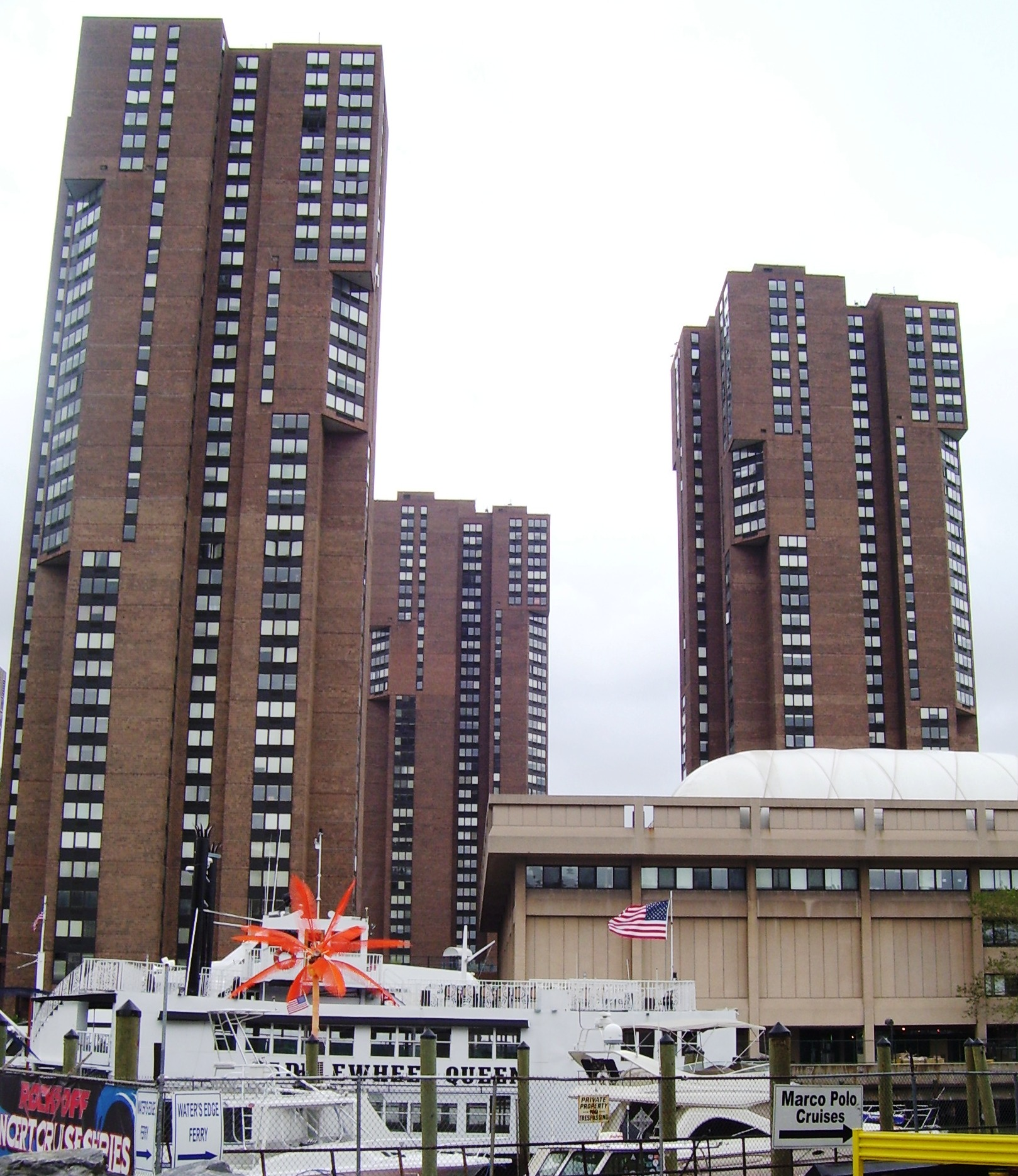 Threee of the four towers of the Waterside Plaza apartment complex on the East River in the Kips Bay neighborhood of Manhattan, New York City. In the foreground is the United Nations International School.